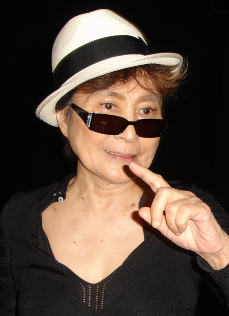 Yoko Ono at the Museum of Contemporary Art of the University of São Paulo, Brazil.